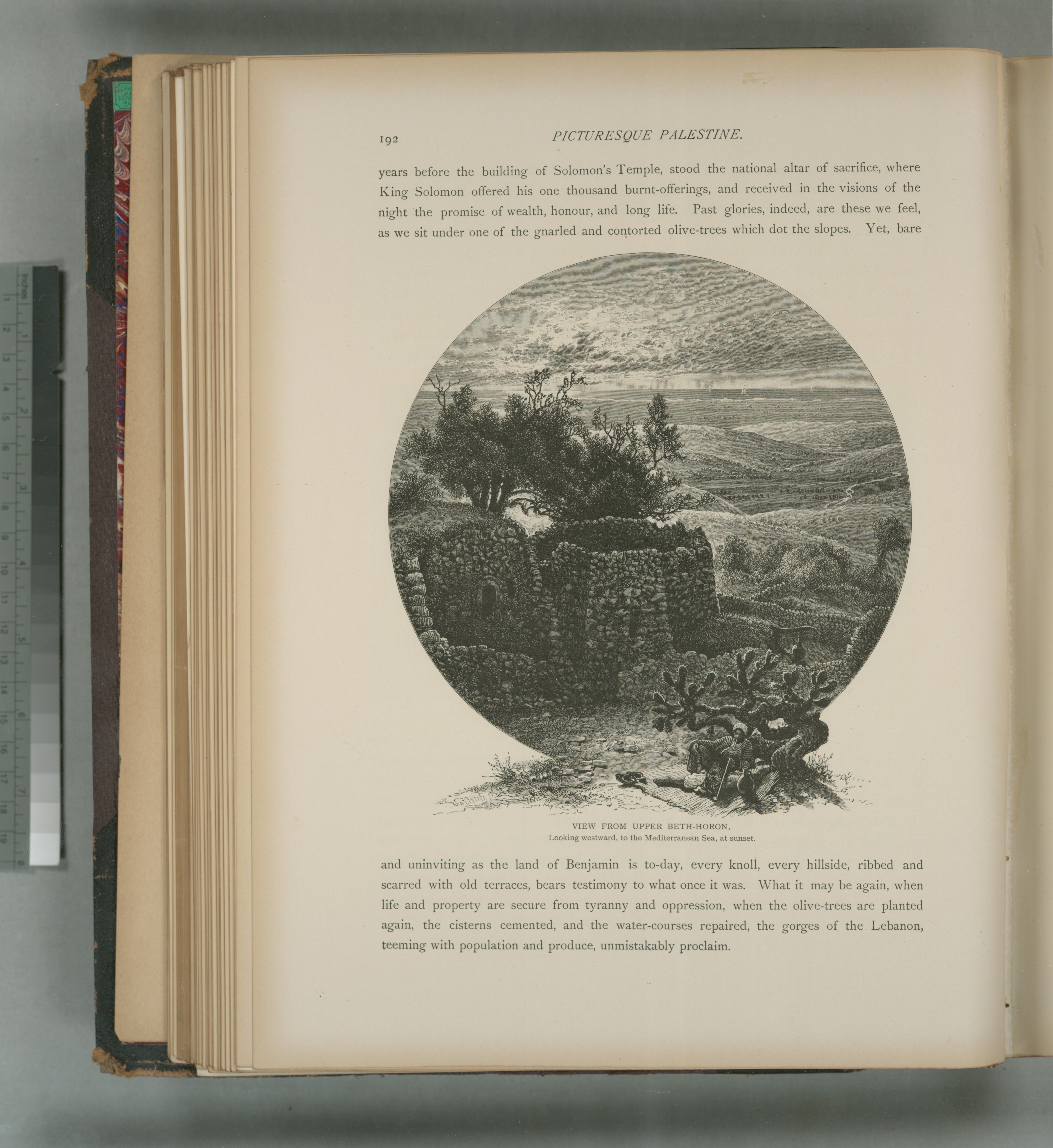 Colonel Wilson, ed.